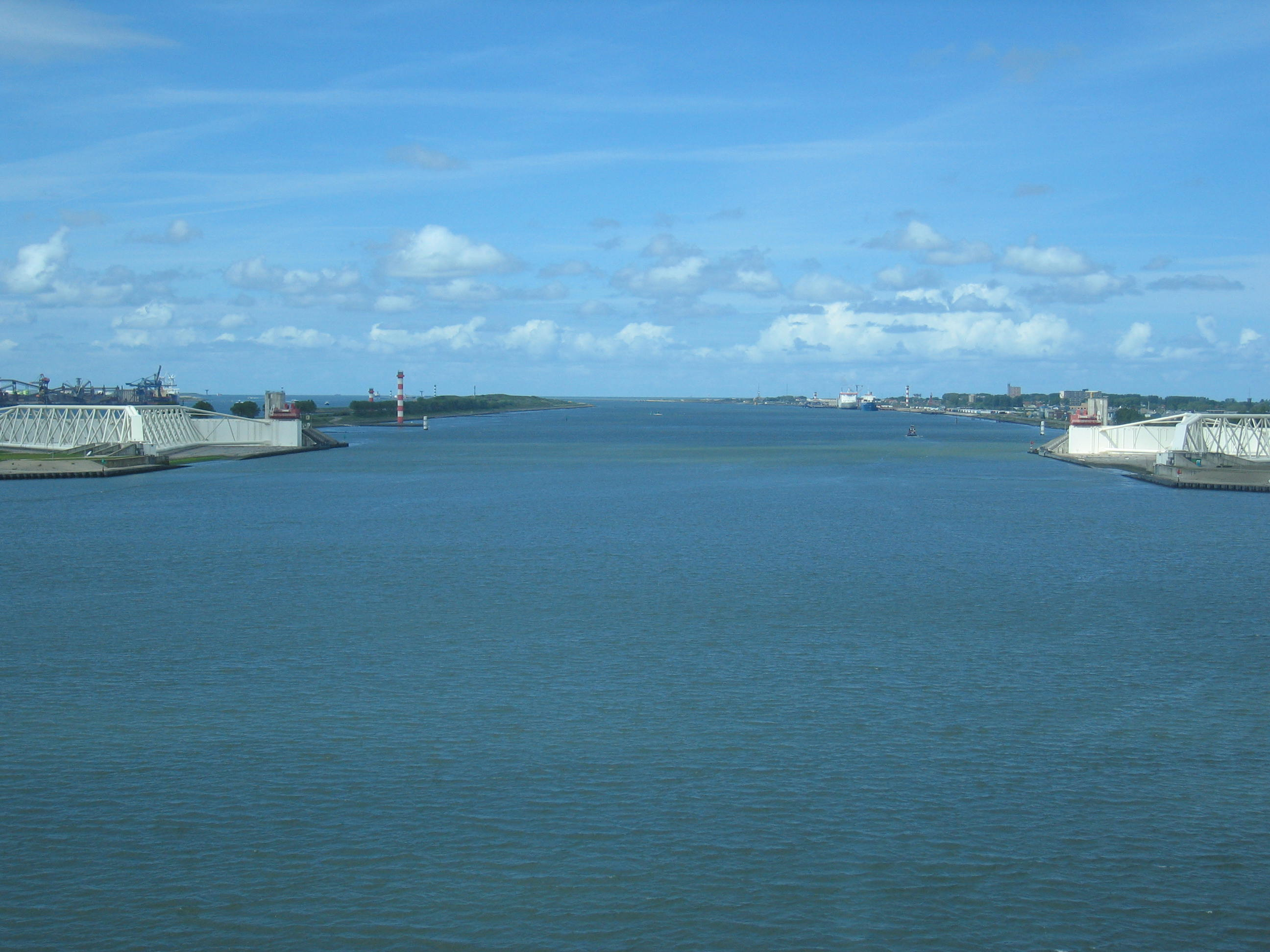 Looking out to sea through the storm surge barrier on the Nieuwe Waterweg. The photograph was taken from the bridge of a ship.